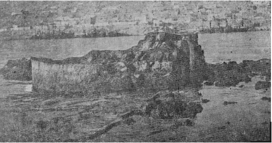 Bayıl Kalesi’nin 1904’te çekilmiş bir fotoğrafı (Ahundov’dan)